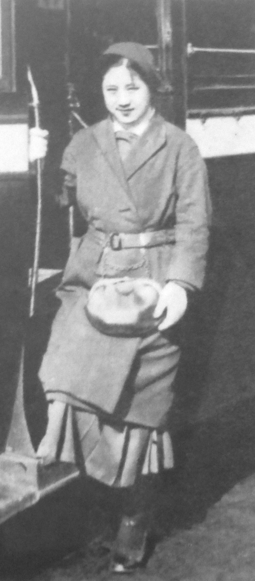 バスの車掌 (bus conductor in Japan)